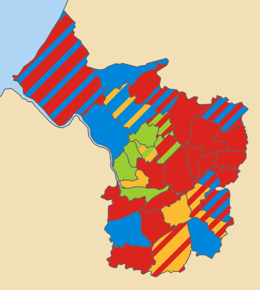 Results of the 2016 local elections in Bristol Colours: Liberal Democrat Conservative Labour Green